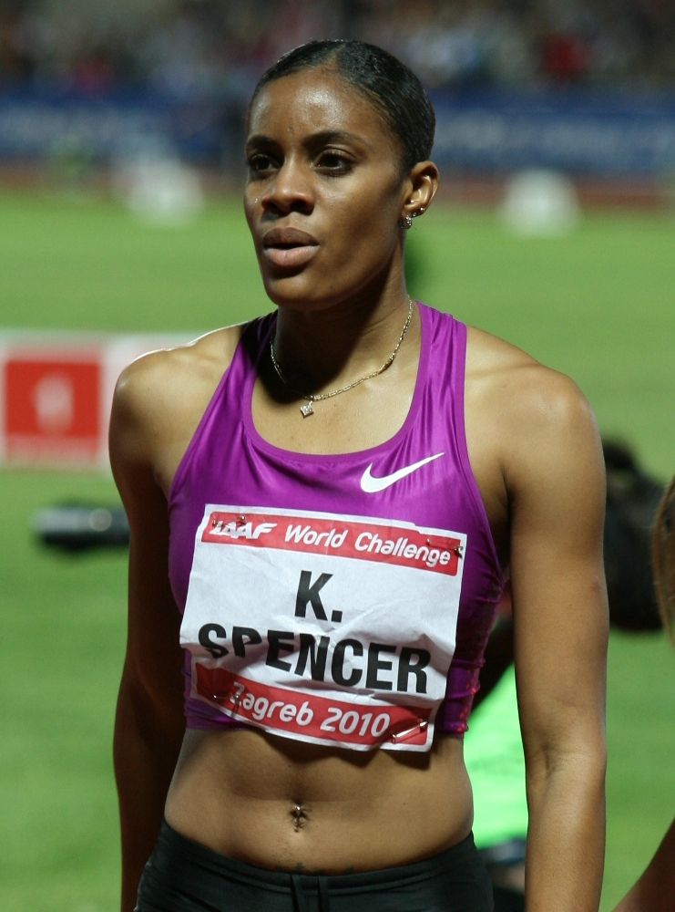 Kaliese Spencer in Zagreb, 2010